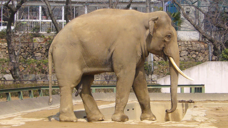 Indian Elephant Mac in the Kobe Oji Zoo, Kobe, Japan